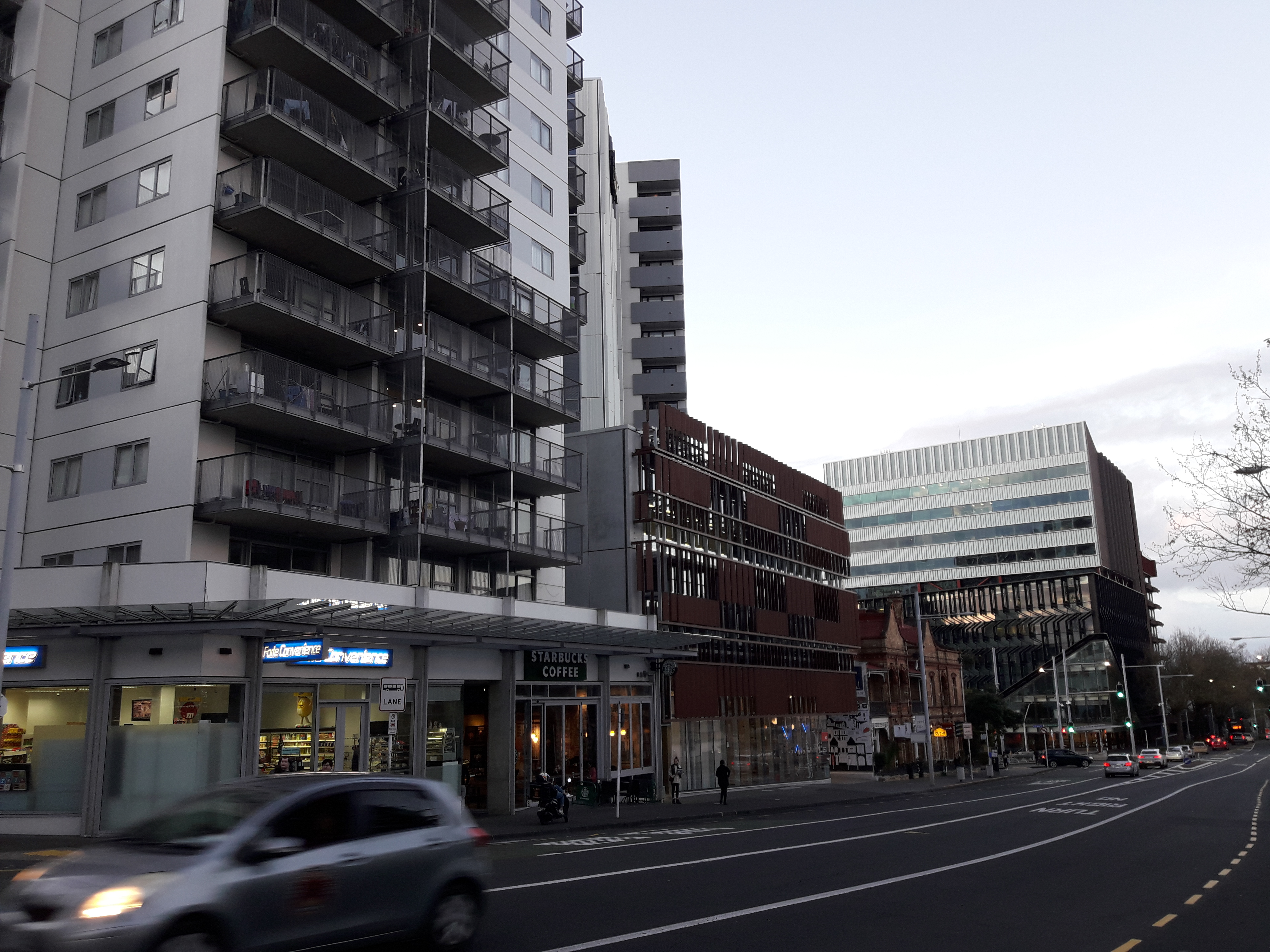 Symonds Street overlooking the WZ Building of the Auckland University of Technology (AUT) and the Science Centre (Building 302) of the University of Auckland